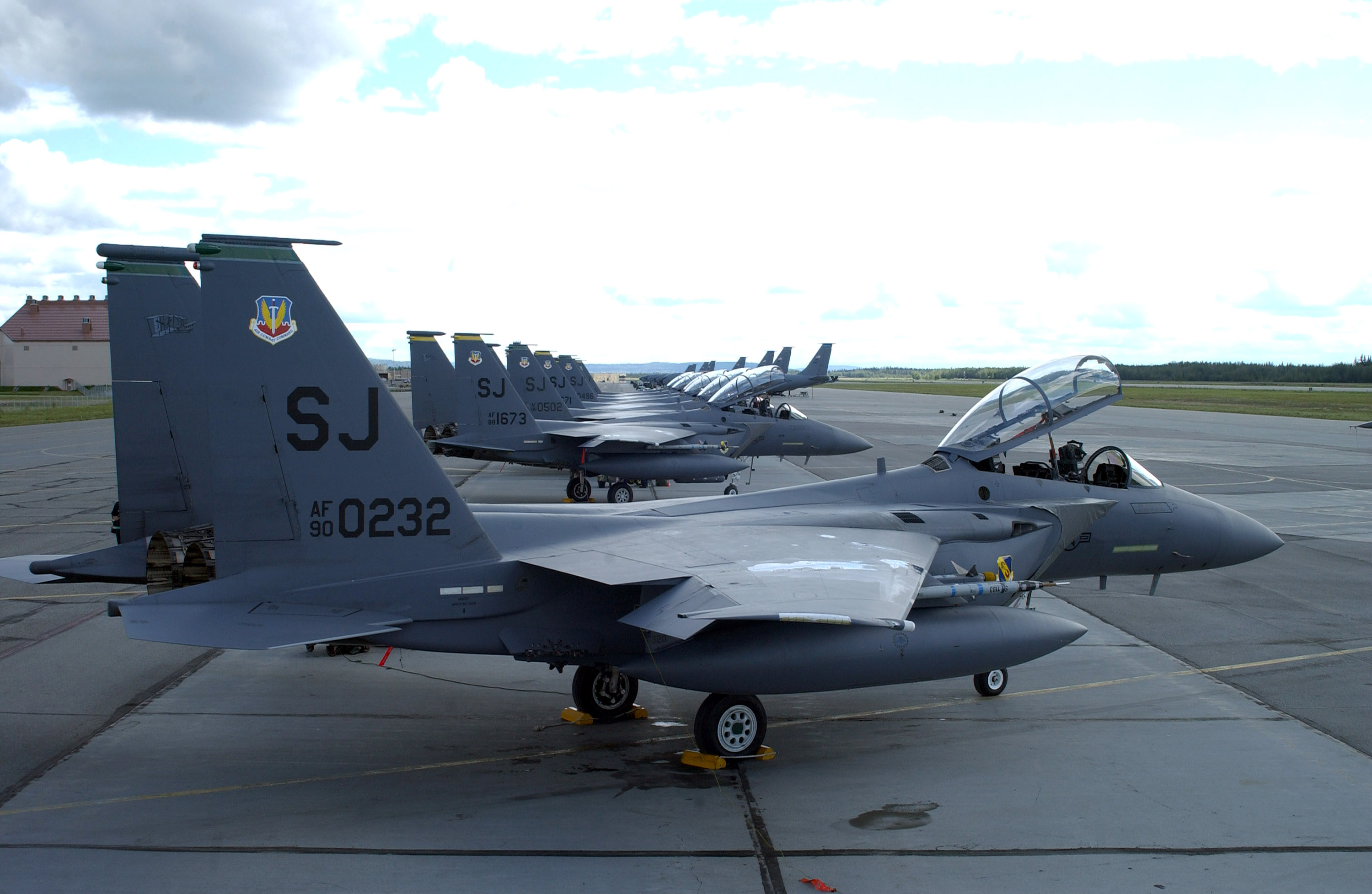 Col. Daniel DeBree leads a team of F-15E Strike Eagles July 19 during a Red Flag-Alaska mission at Eielson Air Force Base, Alaska. More than 80 aircraft and 1,500 servicemembers from six countries are participating in the exercise July 12 to 27 to sharpen their combat skills in simulated combat sorties. Red Flag-Alaska's multinational participation and the addition of the Pacific Alaskan Range Complex assets provide realistic combat training in a safe and controlled setting. Colonel DeBree is vice commander of the 4th Fighter Wing at Seymour Johnson AFB, N.C. (U.S. Air Force photo/Capt. Tana R.H. Stevenson)